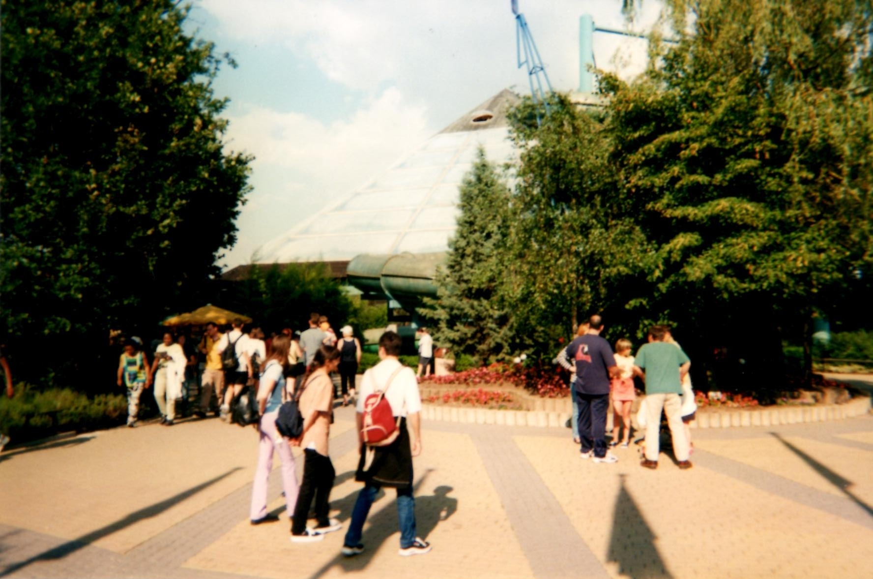 Aqualibi, Walibi Belgium, Belgium.